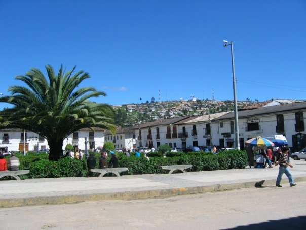 Chachapoyas, Peru